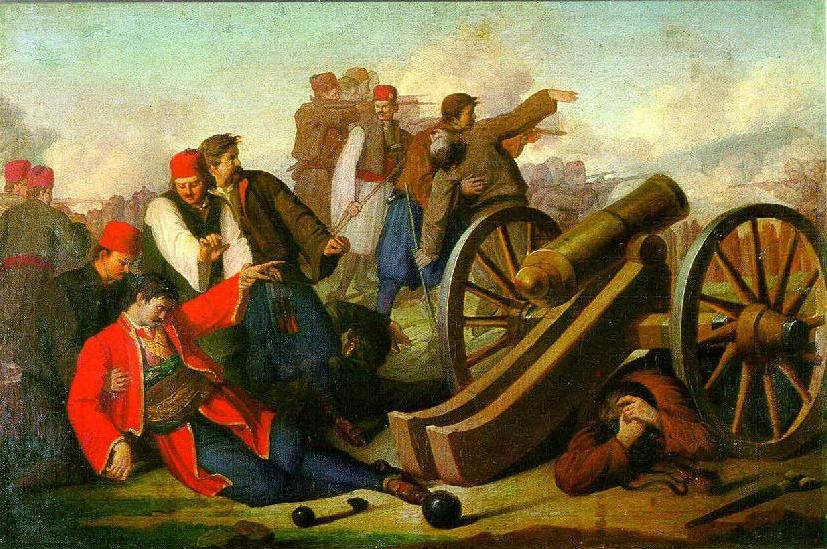 Death of Hajduk-Veljko Petrović during battle for Negotin 1813